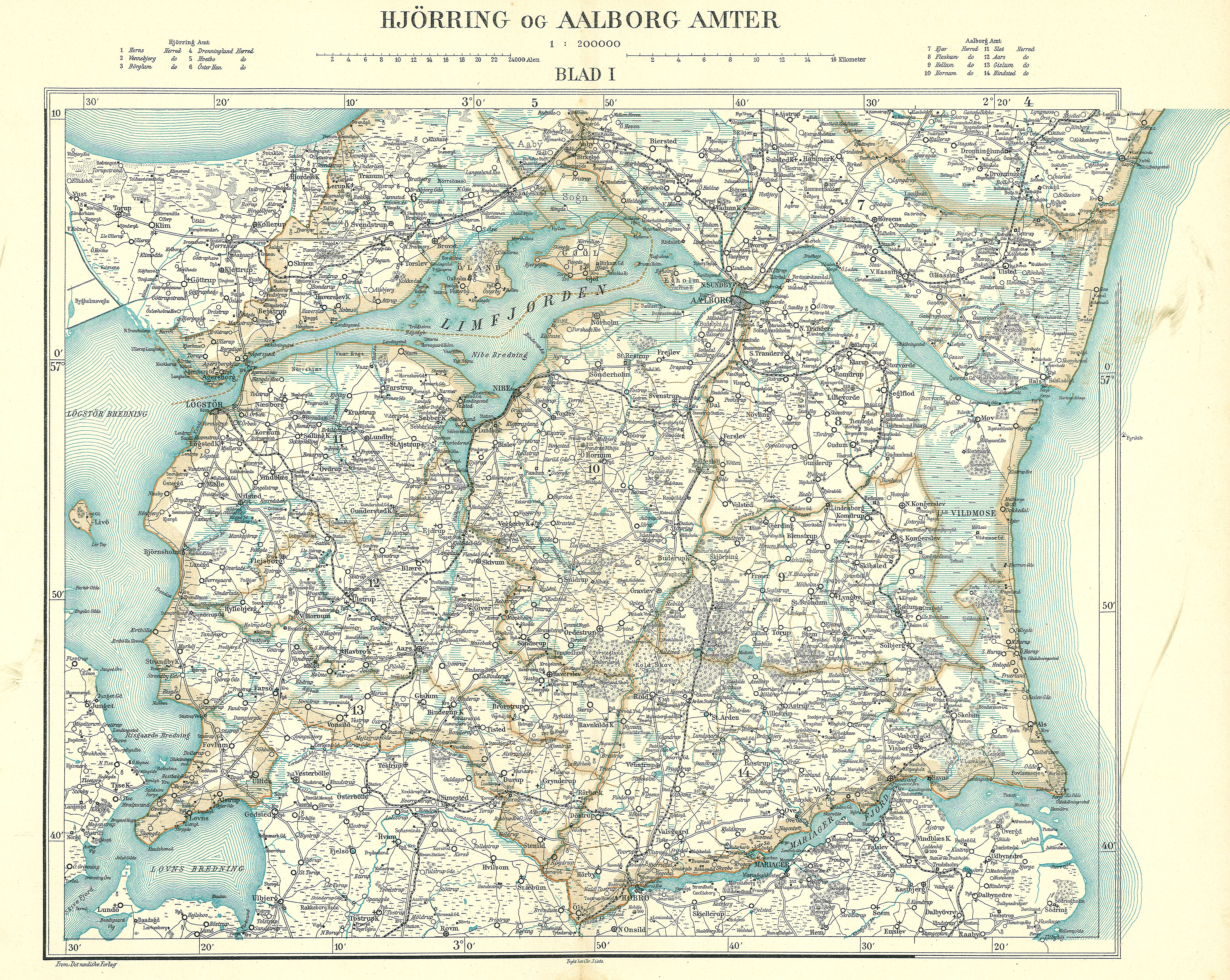 Map of Hjørring- and Aalborg Countys in Denmark